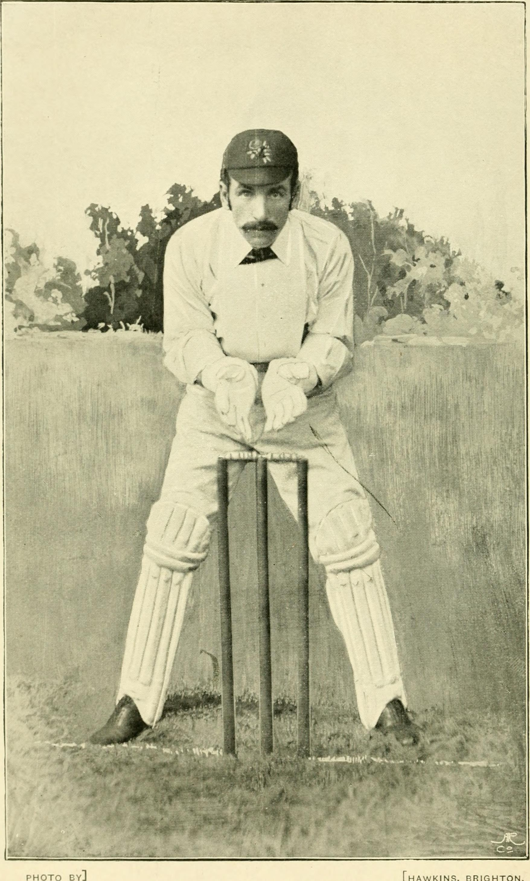 Dick Pilling Title: "W.G.", cricketing reminiscences and personal recollections Year: 1899 (1890s) Authors: Grace, W. G. (William Gilbert), 1848-1915 Subjects: Cricket Publisher: London, J. Bowden Text Appearing Before Image: PHOTO BYj A. Q. STEEL, BATTING. (hAWKINS, BRIGHTON. Text Appearing After Image: I HO T I L L HAWKINS, BRIGHTON. K. PILLING AT THE WICKET. NEW BOWLING LAWS 205 cricket; their record was very creditable, as oftwelve matches pla37ed they won four, lost three,and drew five. They were weak in bowhng,but they batted well, making 4360 runs for 173wickets, an average of over 25, and fielded fairlywell. In all respects they clearly demonstratedthat cricket had gone ahead in Philadelphia sincelast an American team had visited England. The rules of cricket underwent some changesthis season. At its annual meeting in May, theM.C.C. adopted three new laws, which wereembodied in the rules as follows :— I. That the over in future shall consist offive balls instead of four. 2. That the bowler may change ends asoften as he pleases, but may not bowl two oversin succession. ^^ 3. That the captain of the batting side maydeclare the innings at an end in a one-daymatch, whenever he chooses to do so ; but onlyon the last day of a match arranged for morethan one day. These amendments w